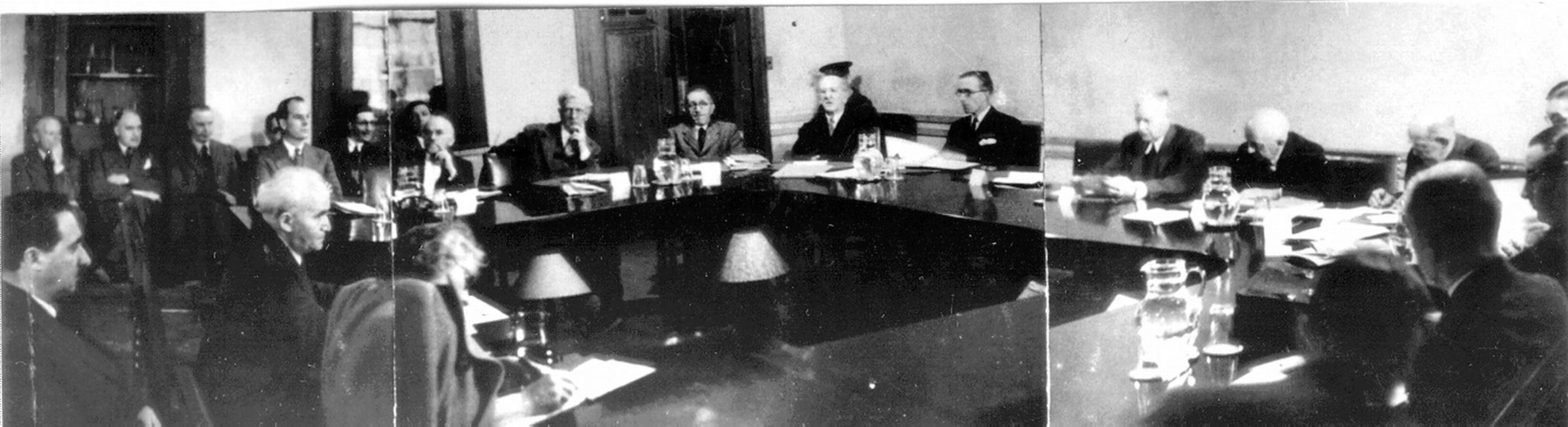 David Ben-Gurion and Moshe Sharett testifying before the Anglo-American Committee of Inquiry in Jerusalem